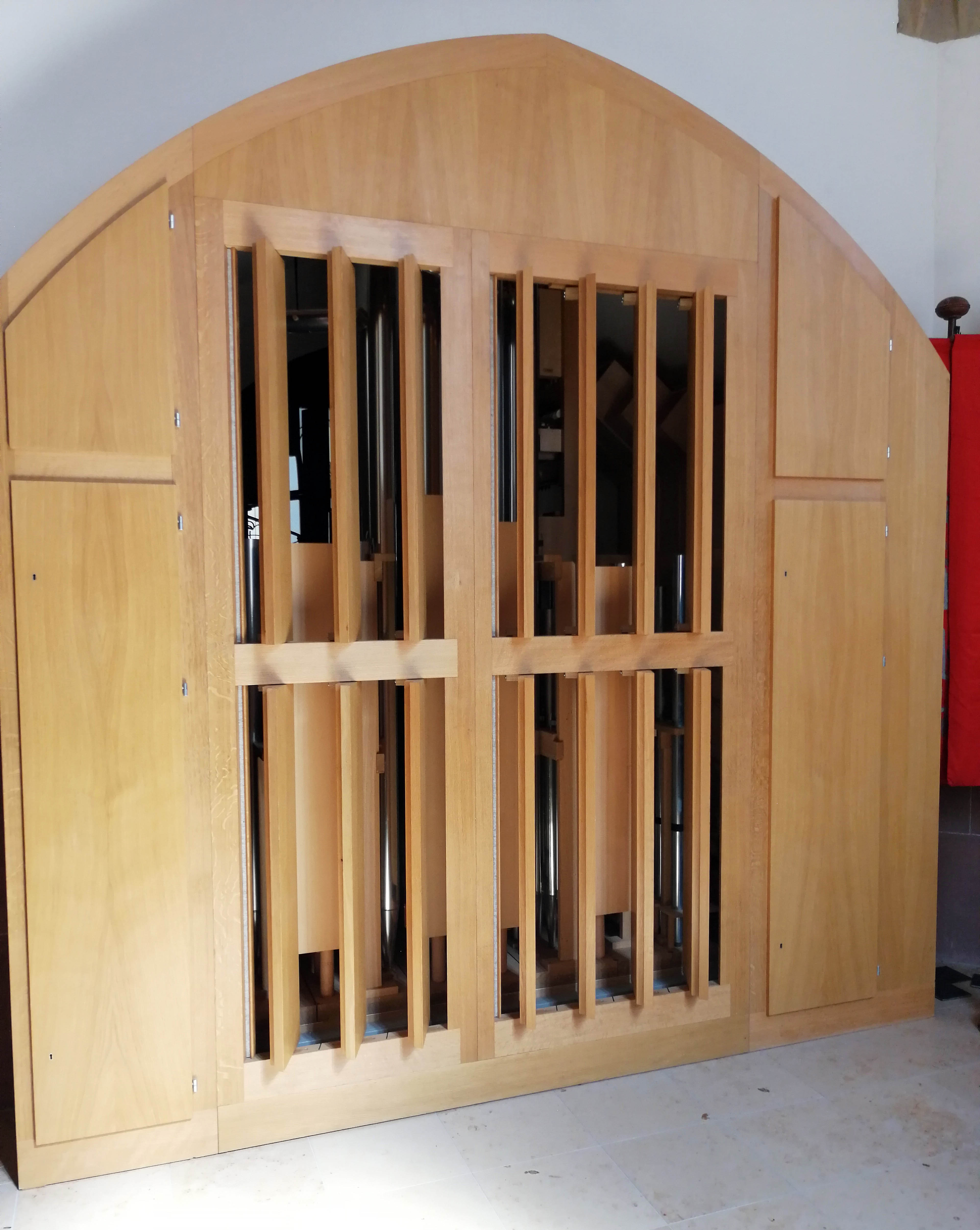 Dionysius - Fernwerk mit Celesta